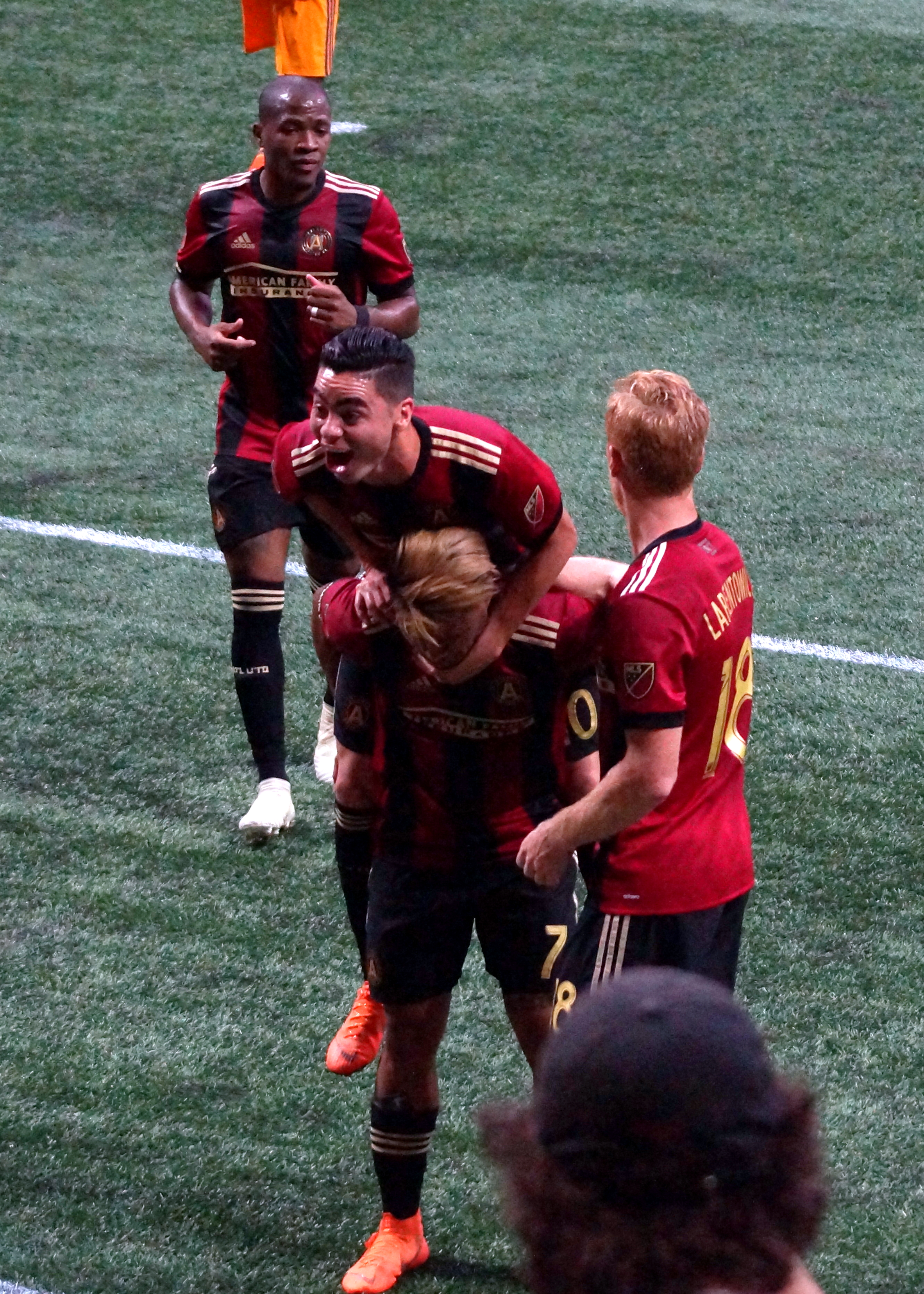 Miguel Almirón playing for Atlanta United on June 2, 2018